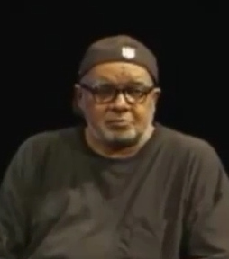 American theatre director and playwright Marion McClinton at the Playwrights' Center Panel Discussion